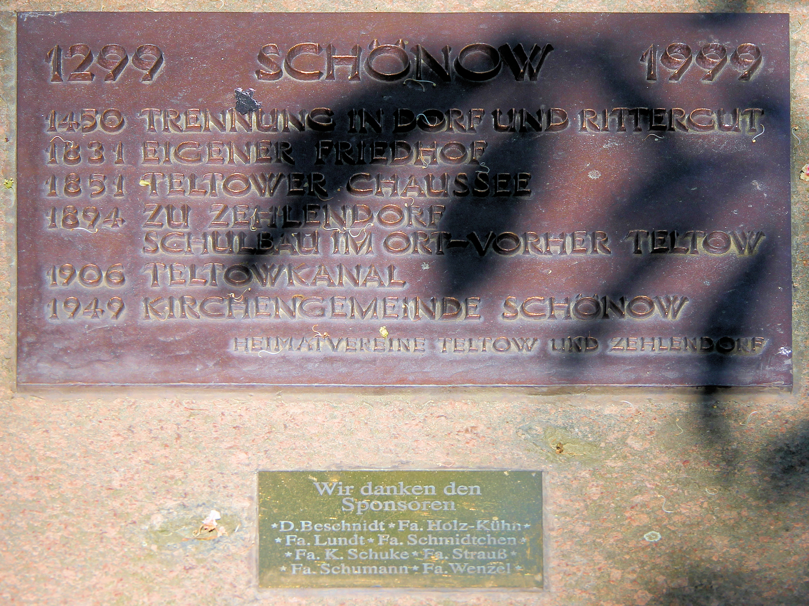 Memorial plaque, Schönow (Zehlendorf), Alt-Schönow 1, Berlin-Zehlendorf, Germany Koordinate:52°24′25″N 13°16′3″E / 52.40694°N 13.2675°E